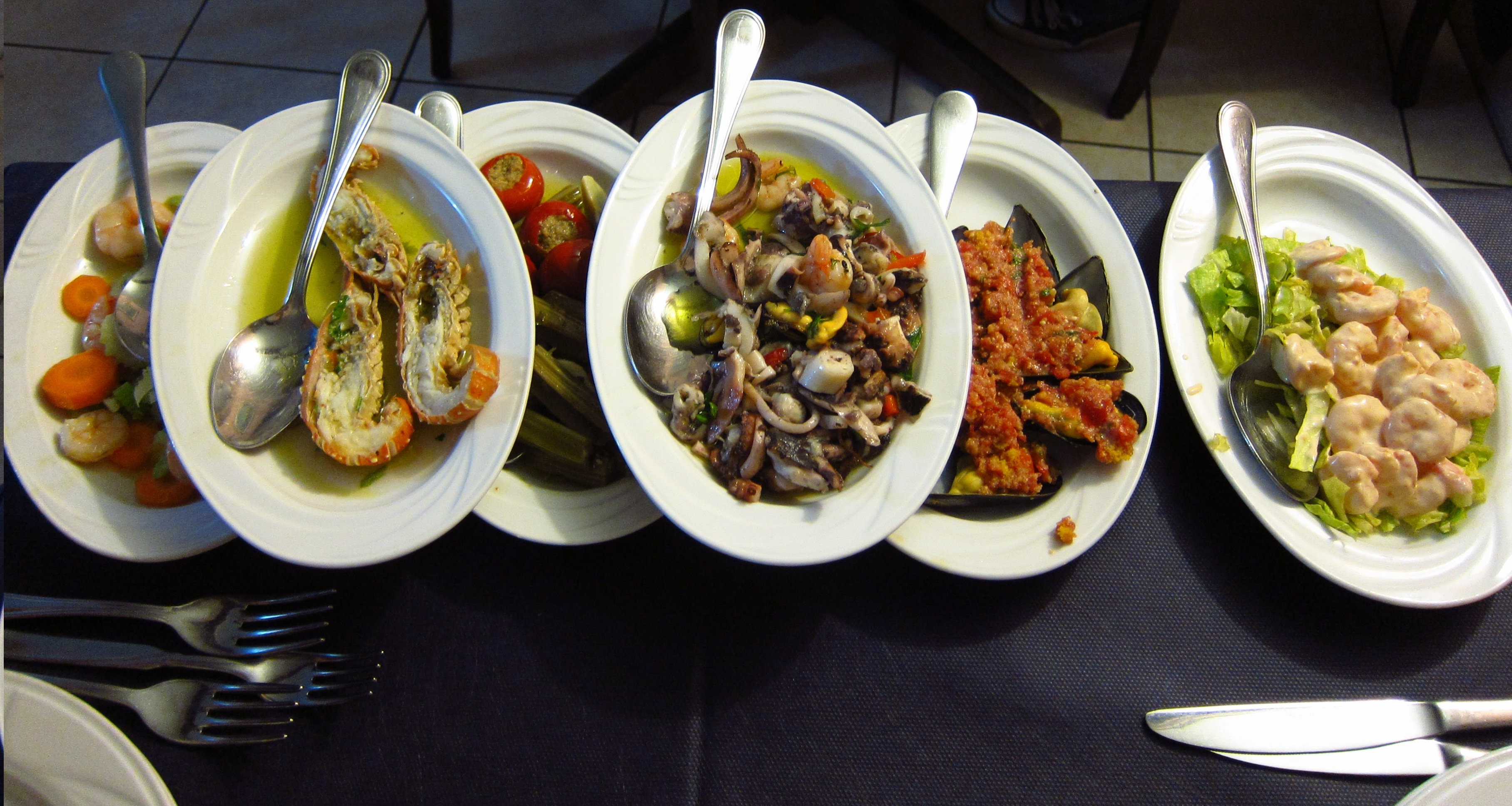 Sea food in Cagliari, Italy